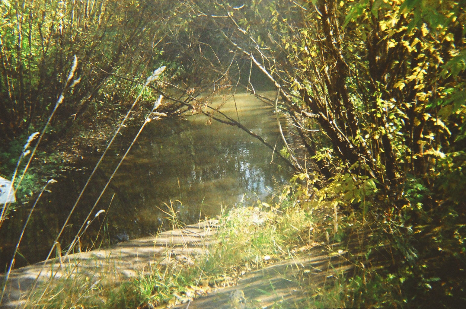 Yegoshikha River neat the North dam (Perm)